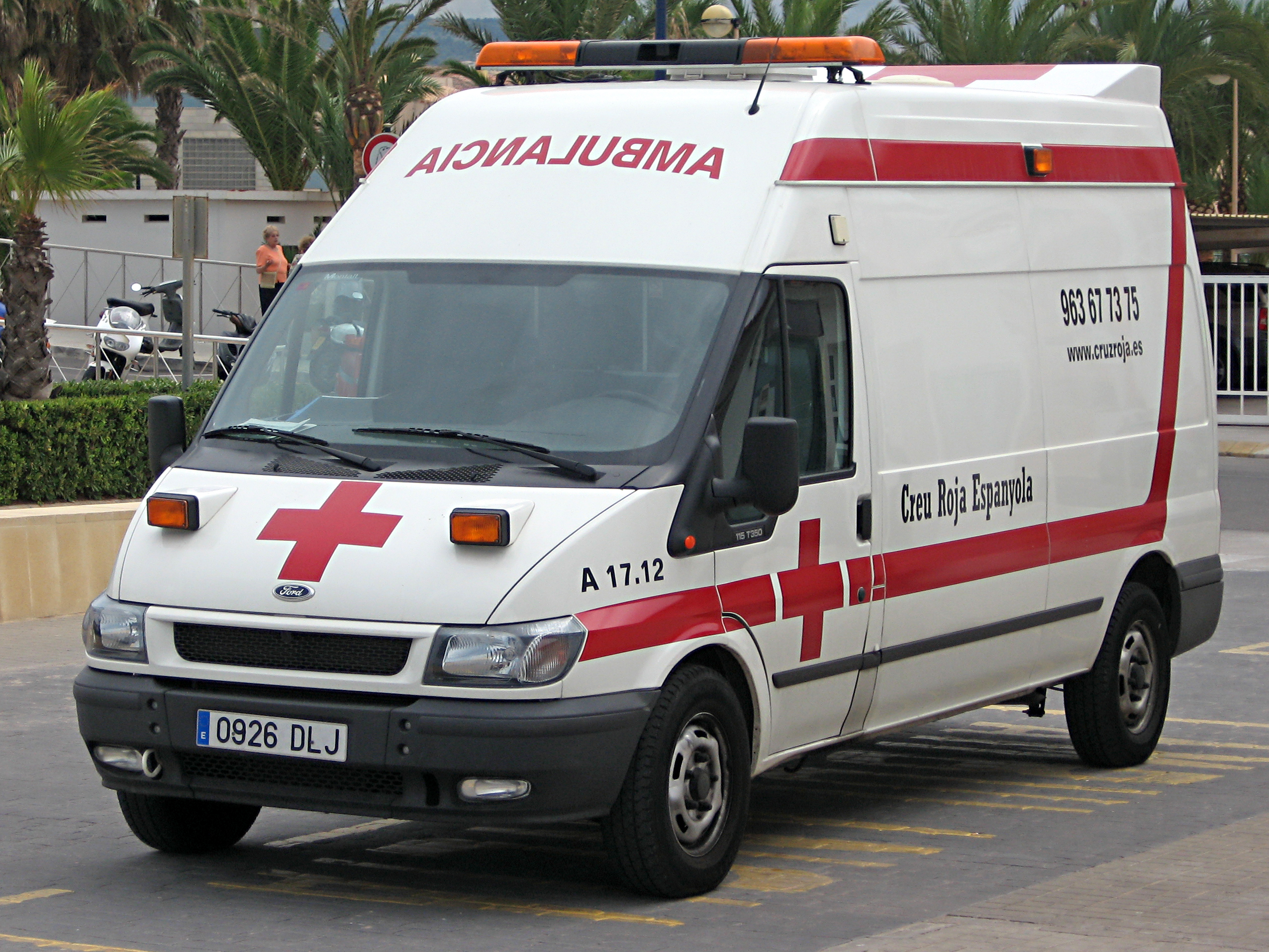 Ambulance of the Creu Roja (Cruz Roja, Spanish Red Cross) in Platja de Miramar (Valencia, Spain), with "AMBULANCIA" in mirror writing ("AICNALUBMA")